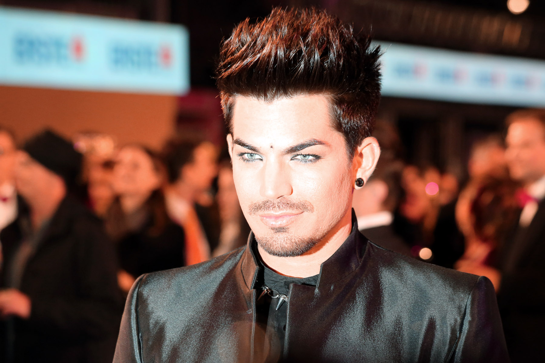 Adam Lambert on the 'magenta carpet' at Life Ball 2013 at the square in front of the city hall of Vienna, Vienna, Austria.